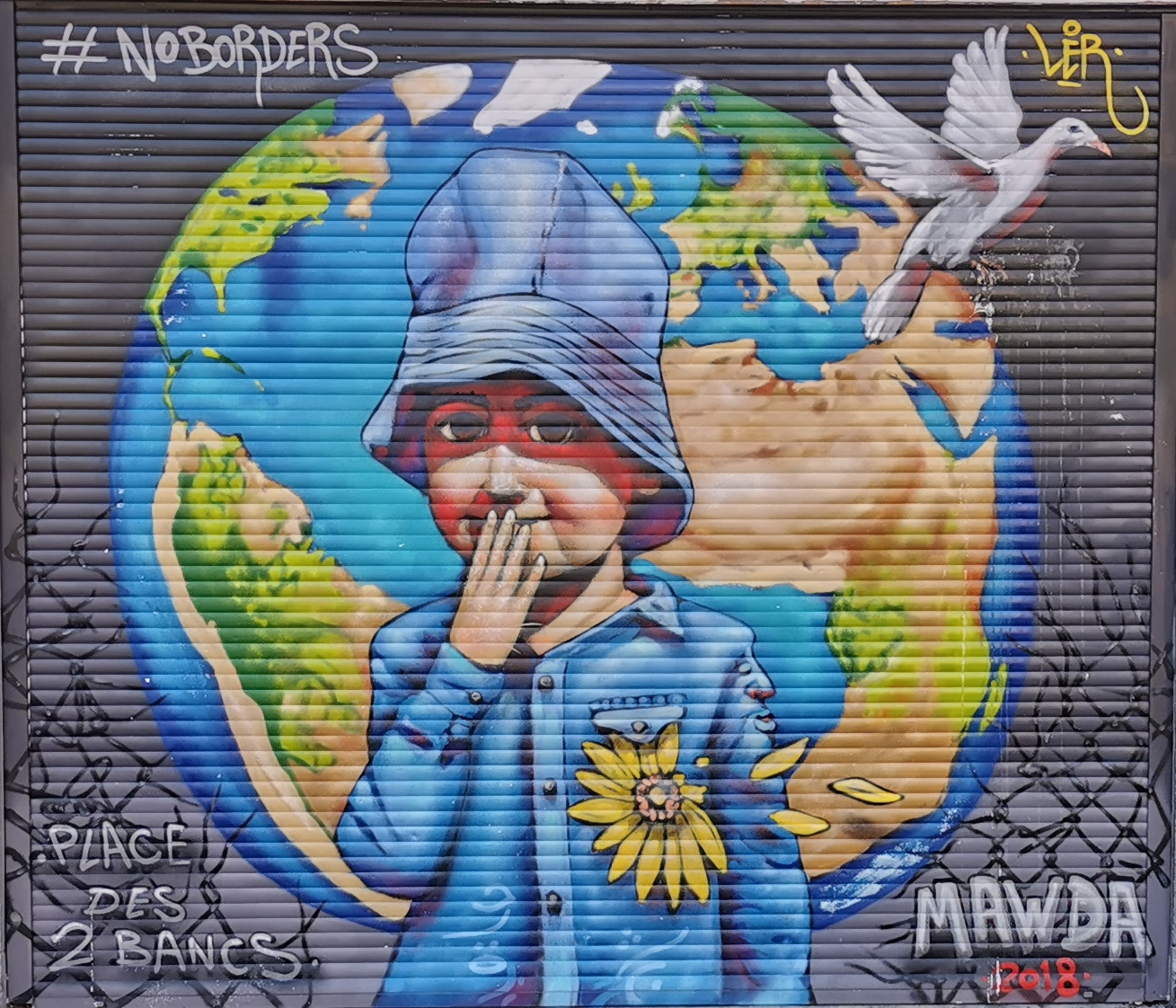 Mawda painting at La vieille Chéchette (Rue du Monténégro 2, Saint-Gilles)